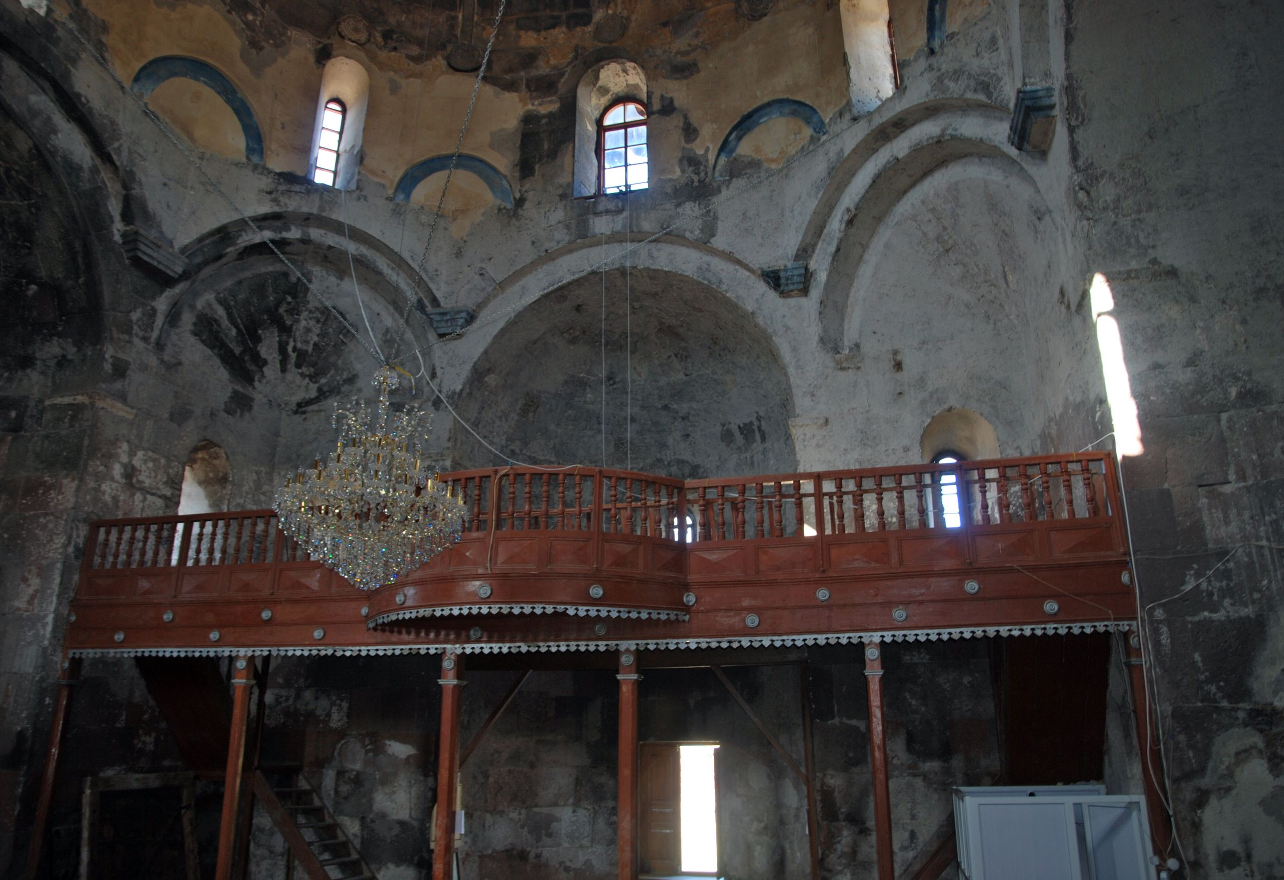 Mastara, church of St. John